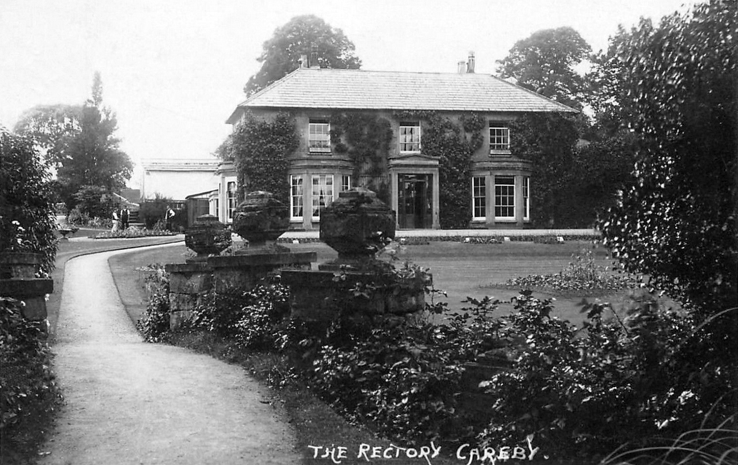 Grade II listed Careby Rectory, Lincolnshire, England. Published in or before 1912 per King George V 1911-12 Downey Head short lived three quarter profile stamp on reverse.